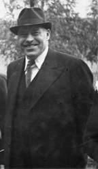 Swedish farmer and author Carl Larsson i By (1877-1948)